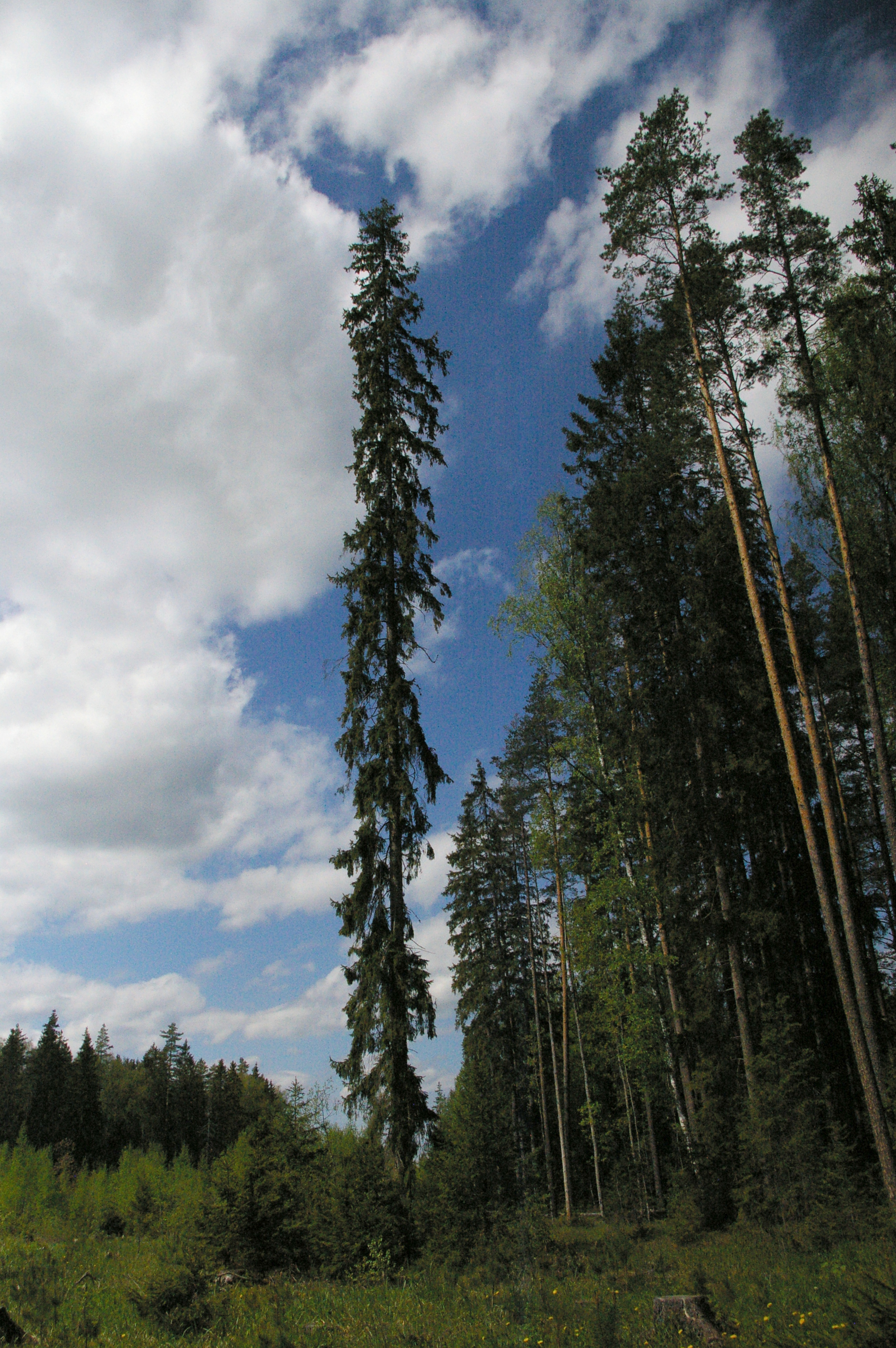 Slim spruce-tree.